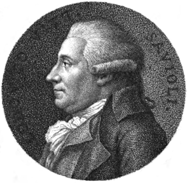 Portrait of Ludovico Savioli (1729-1804), Italian writer